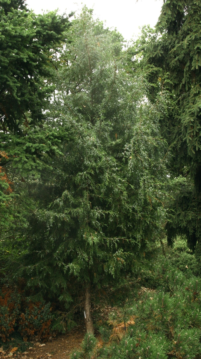 Juniperus semiglobosa, Dendrological garden in Pruhonice, Czech Republic